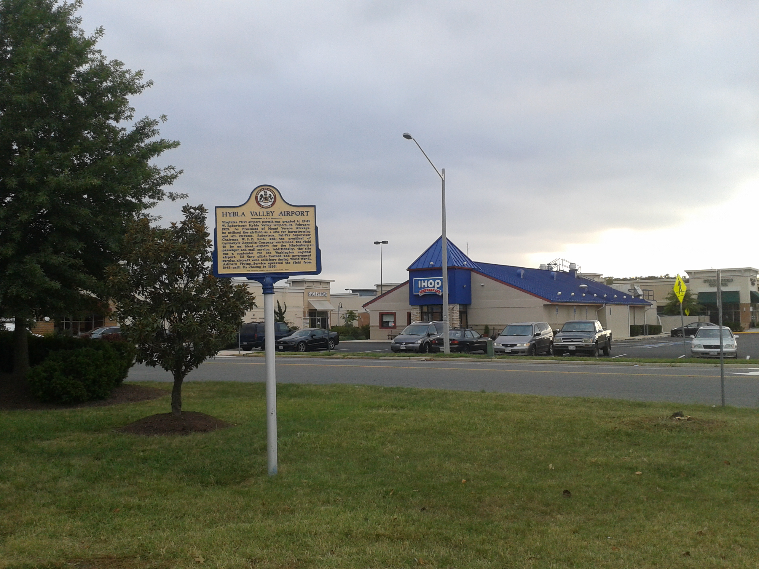 Fairfax County historical marker denoting the site of Hybla Valley Airport; the airport occupied the space in the distance behind the sign